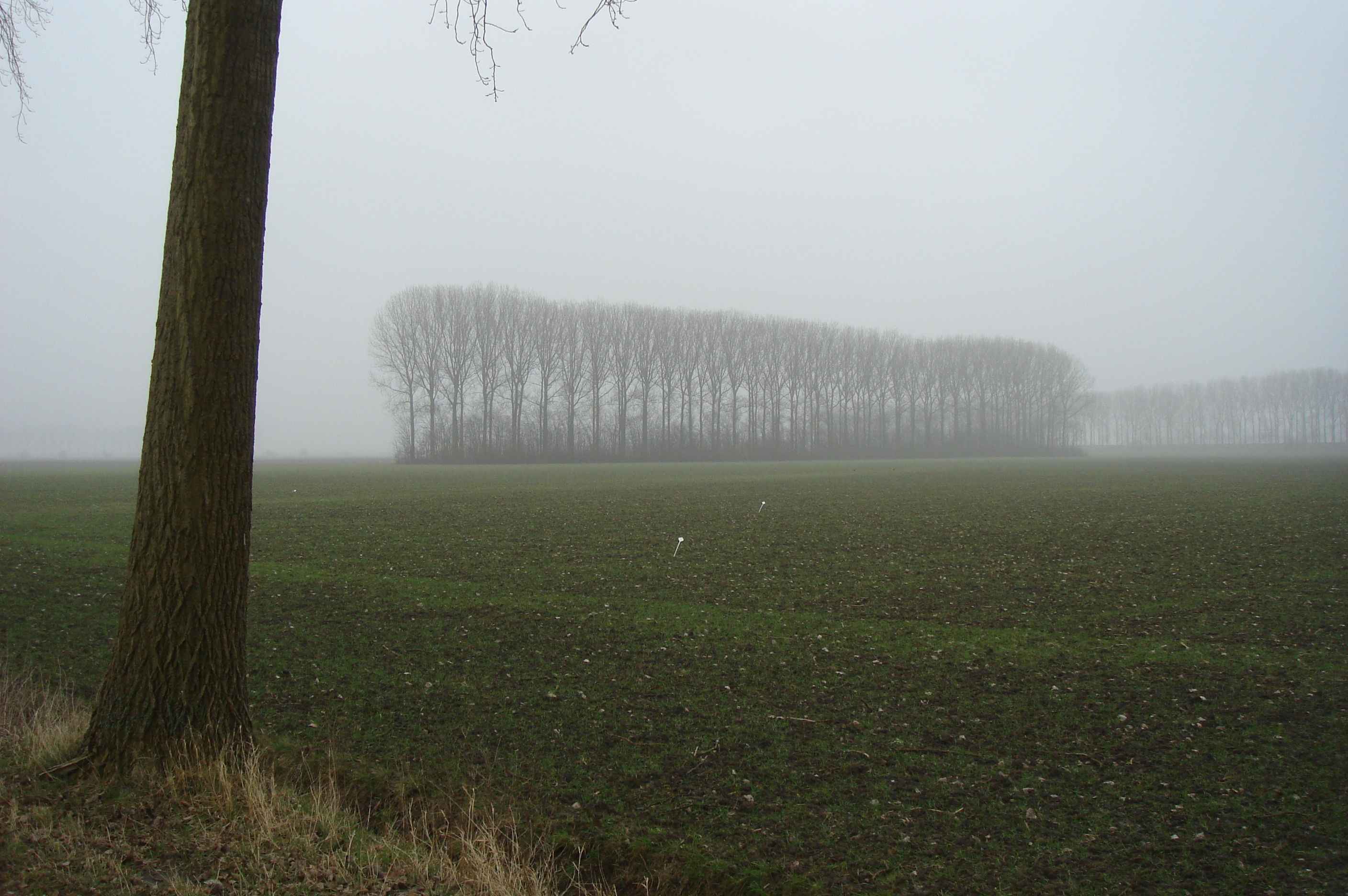 Hertogin Hedwigepolder, 27 februari 2012. Foto: Daniel van der Ree